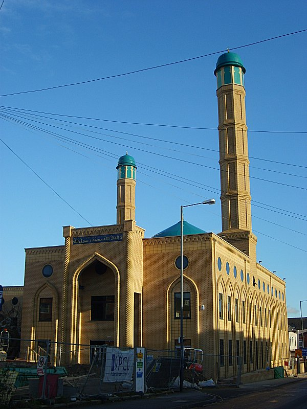 Medina Mosque, Lowfield, Sheffield.